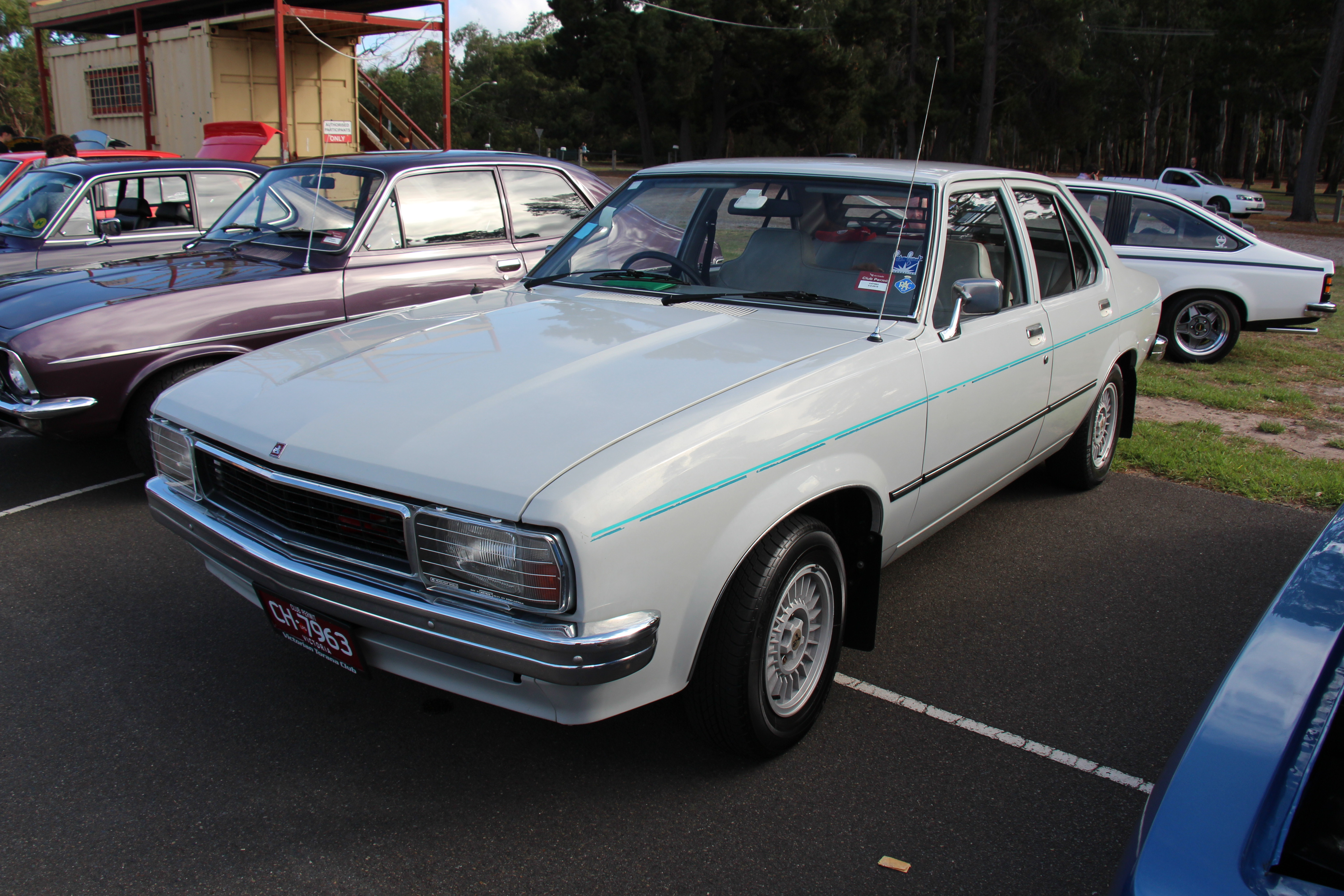 Holden UC Torana Sedan